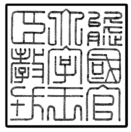 Sceau Du Grand Chancelier du Mérite Taï